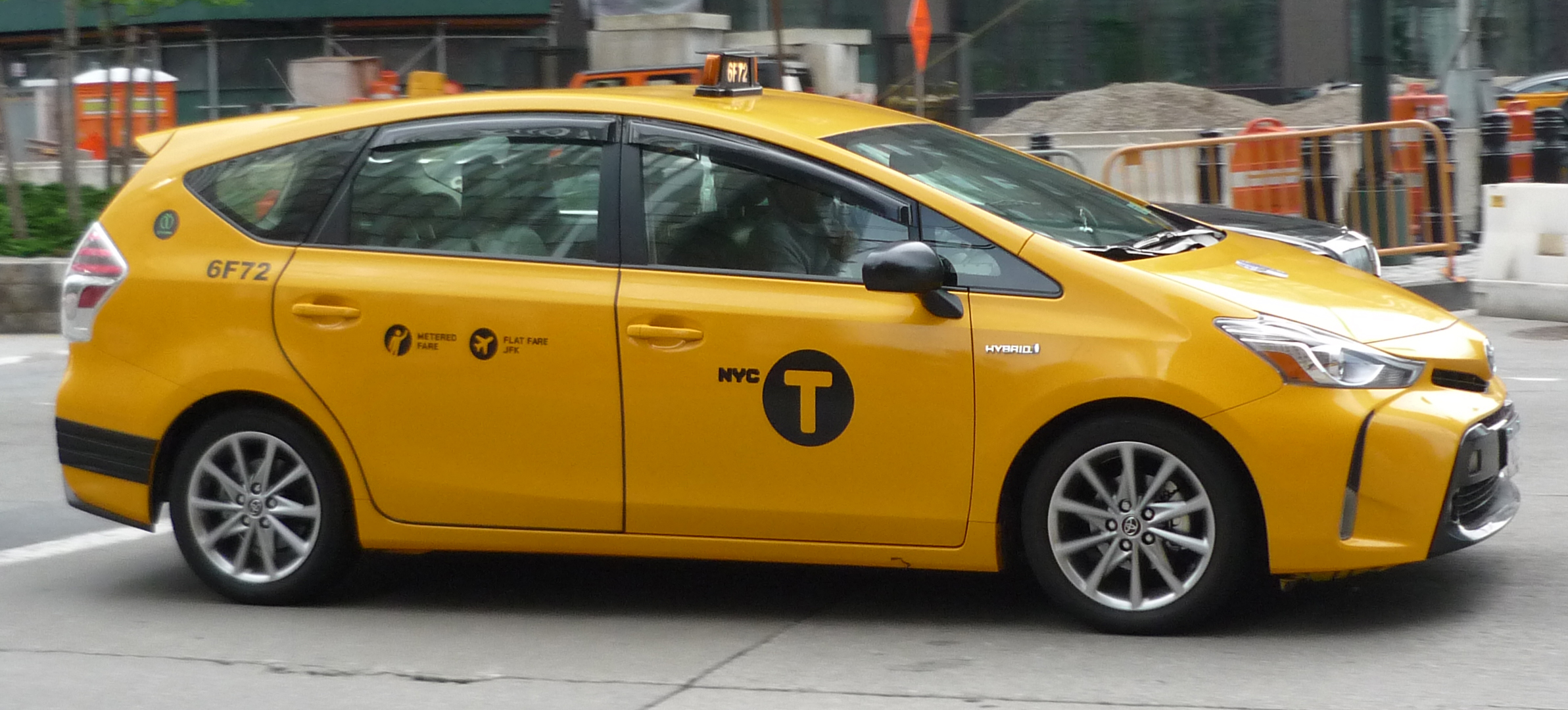 Toyota Prius v in use as a New York City taxicab. This model succeeded the popular Prius Hybrid taxicab